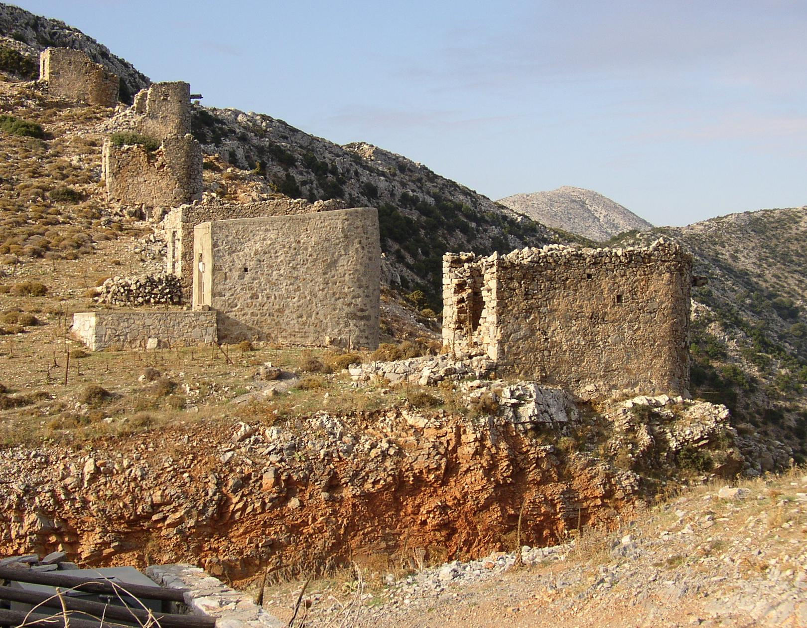 Former Windmills on the Oropedio Lasithiou, Crete, Greece